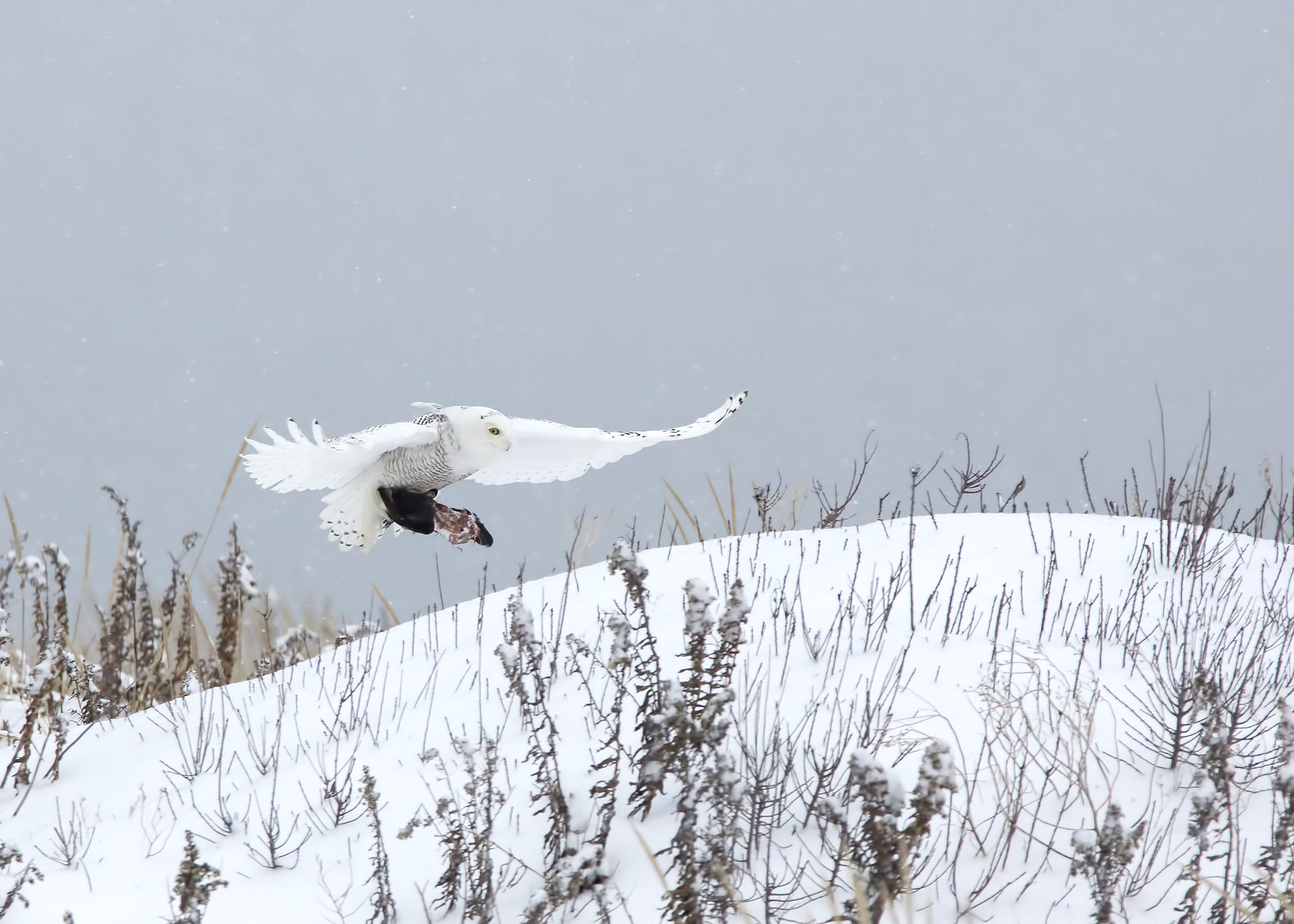 500px provided description: Snowy Owl with its meal [#bird ,#nature ,#animal ,#snow ,#food ,#wildlife ,#owl ,#eating ,#snowy owl ,#bird in flight]